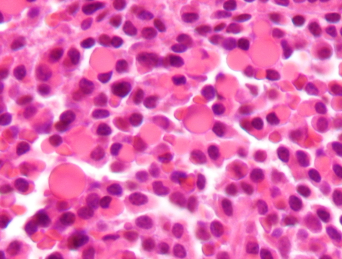 Micrograph of a plasmacytoma. H&E stain. The micrograph shows abundant (malignant) plasma cells and many Russell bodies (eosinophilic uniformly staining membrane bound bodies which contain immunoglobulin). Other features of plasmacytomas (not apparent on the image) are: a prominent perinuclear hof (large Golgi bodies), and Dutcher bodies. Multiple myeloma (which is diagnosed using several clinical criteria) is, histologically, a plasmacytoma. Related images Cropped version. Un-cropped version. Plasmacytoma - another case.